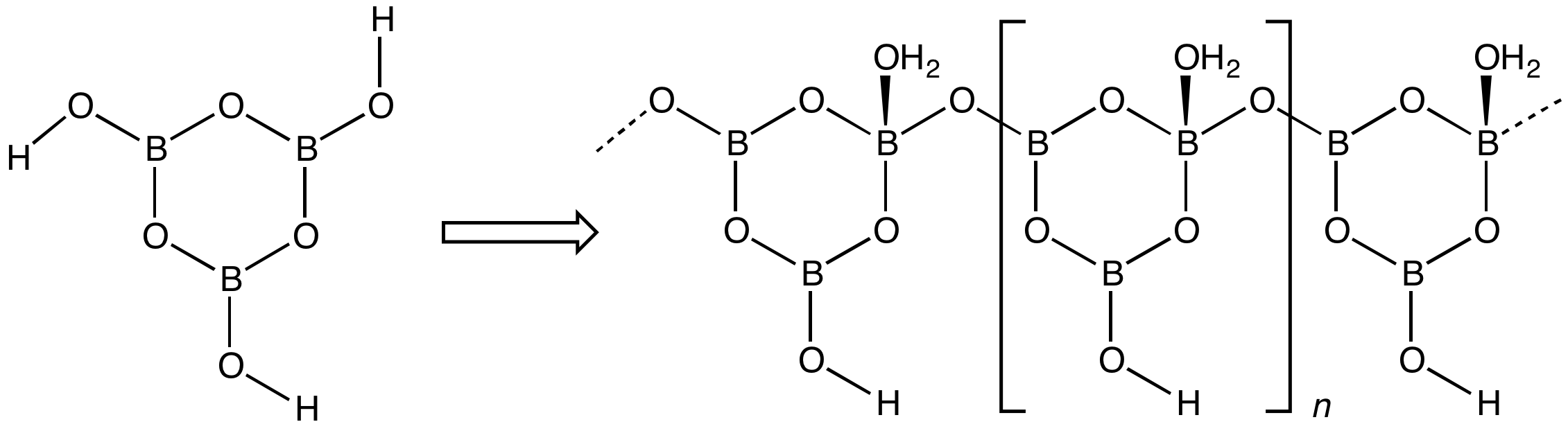 polymerisation of metaboric acid